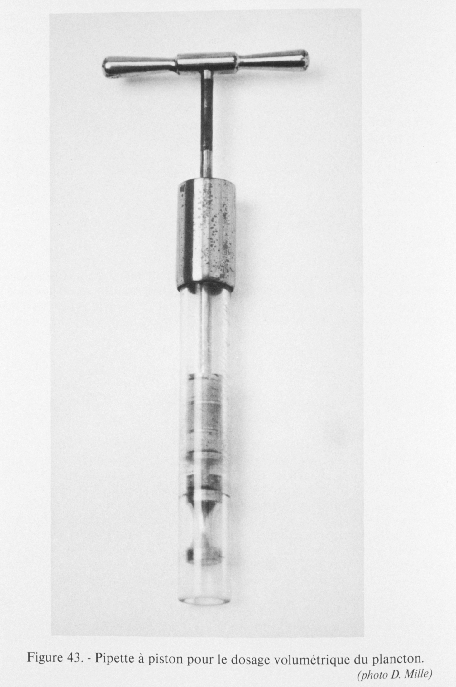 A piston pipette used in determining the amount of plankton in a given volume of water. Used by Victor Hensen in 1887.